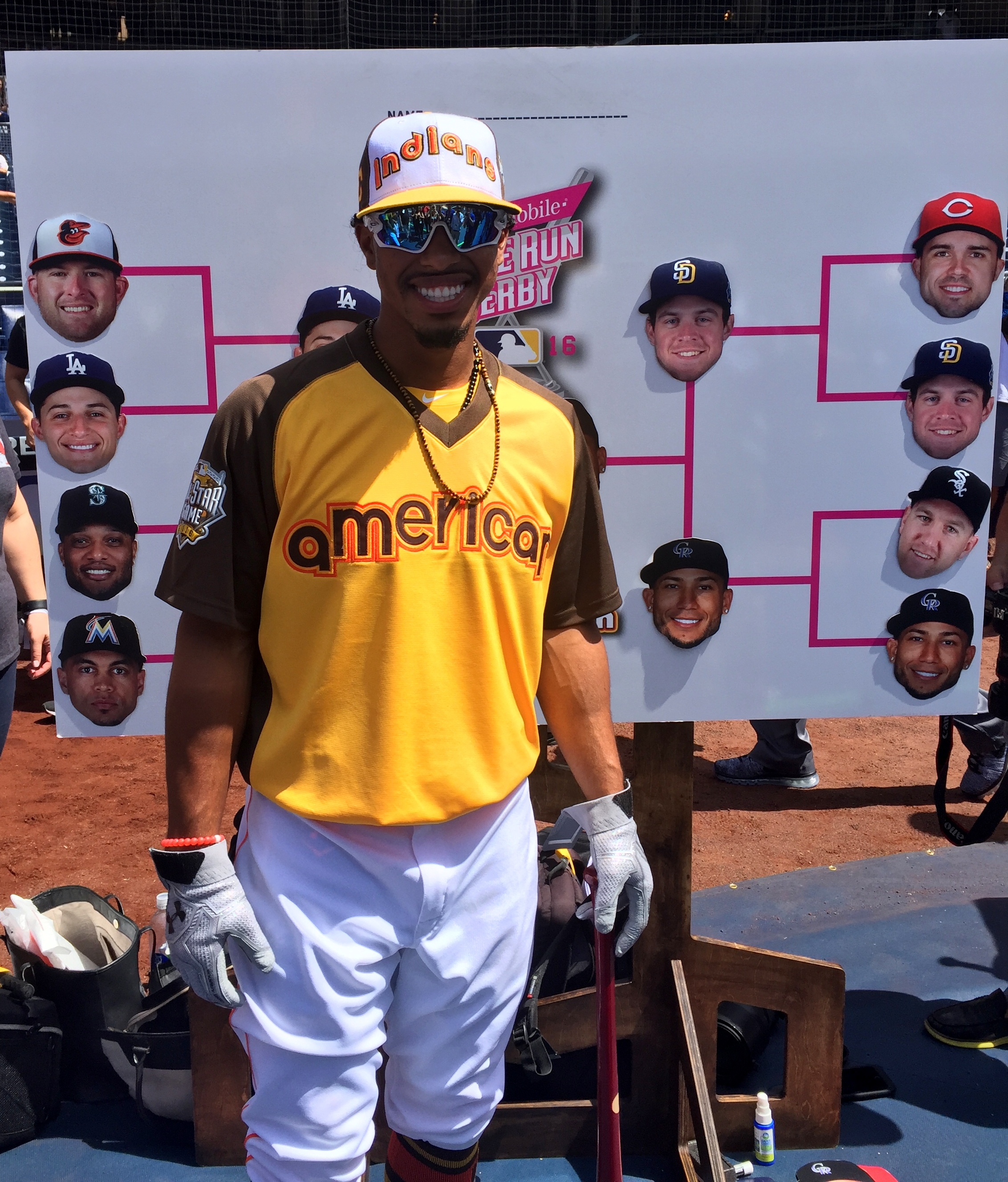 Francisco Lindor is blocking his T-Mobile #HRDerby bracket board.